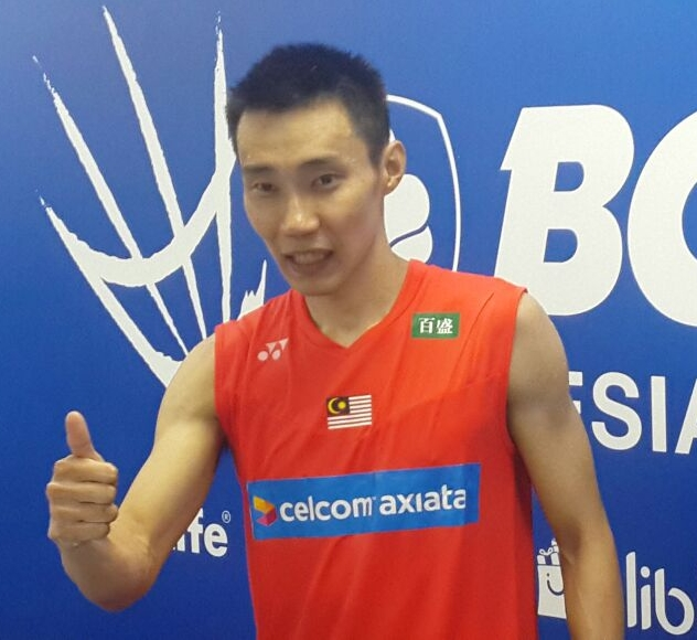 Lee Chong Wei during a press conference at 2016 Indonesia Open Super Series Premier.